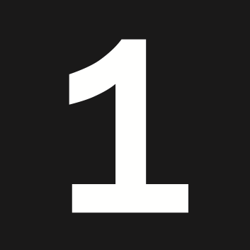 The symbol of Bybanen line 1